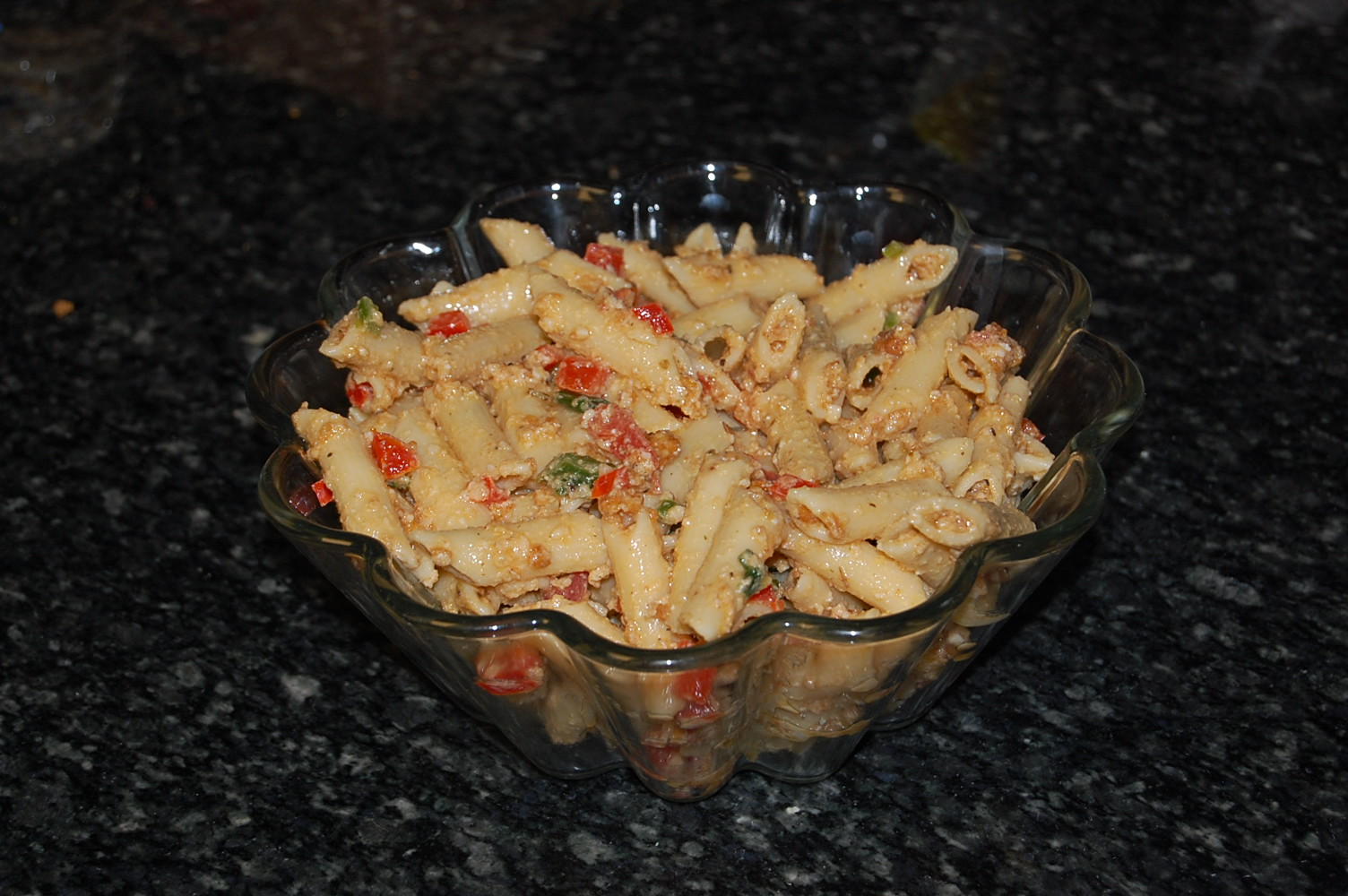 The pasta salad at the Du Ve Sue in New Orleans.